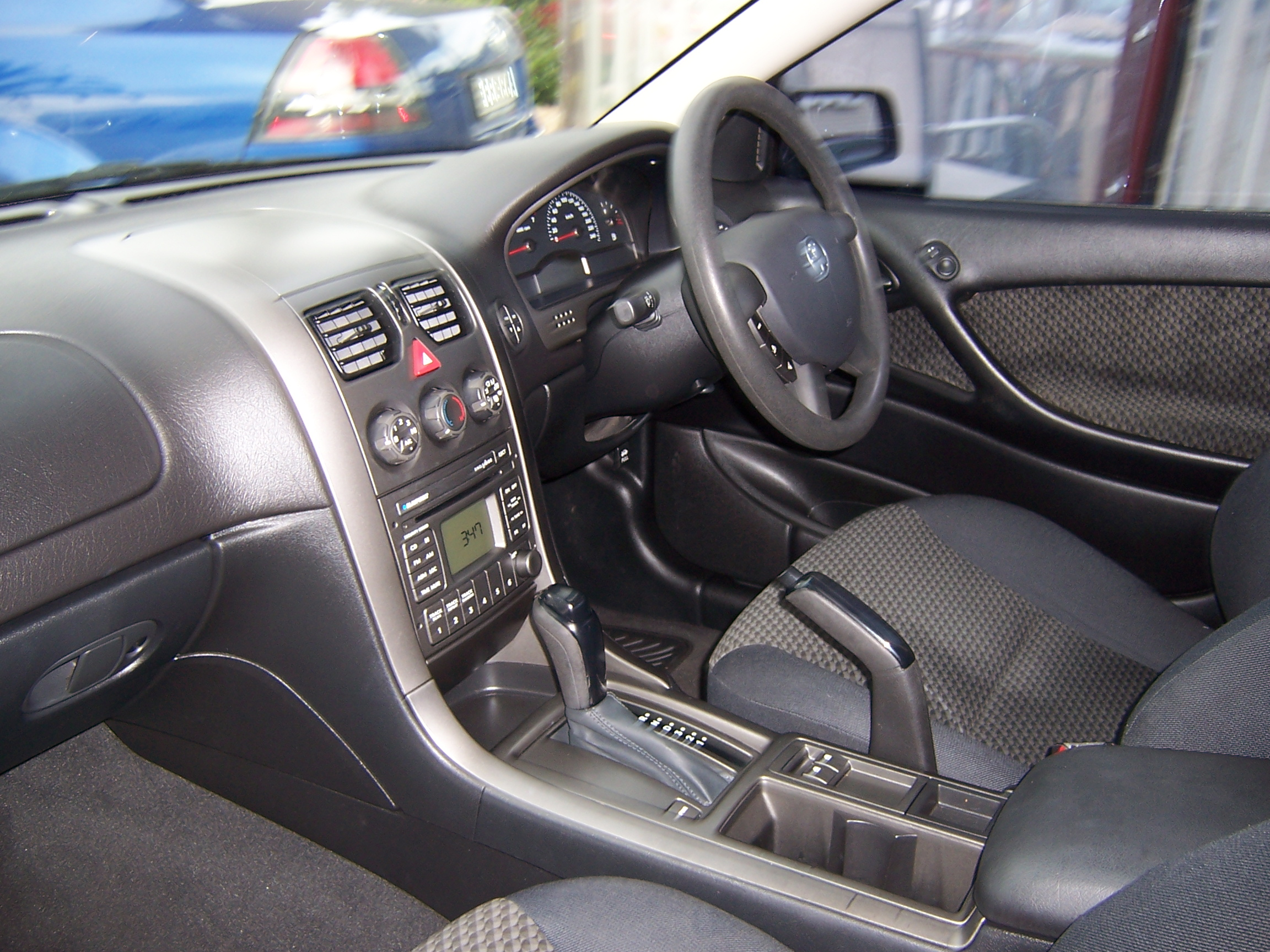 2003-2004 Holden Commodore (VY II) Executive sedan. Photographed at McGrath Sutherland Holden, Kirrawee, New South Wales, Australia.